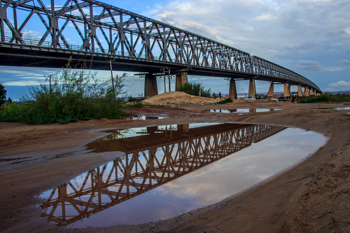 NIGER bridge is the link between Niger delta and the eastern part of the country